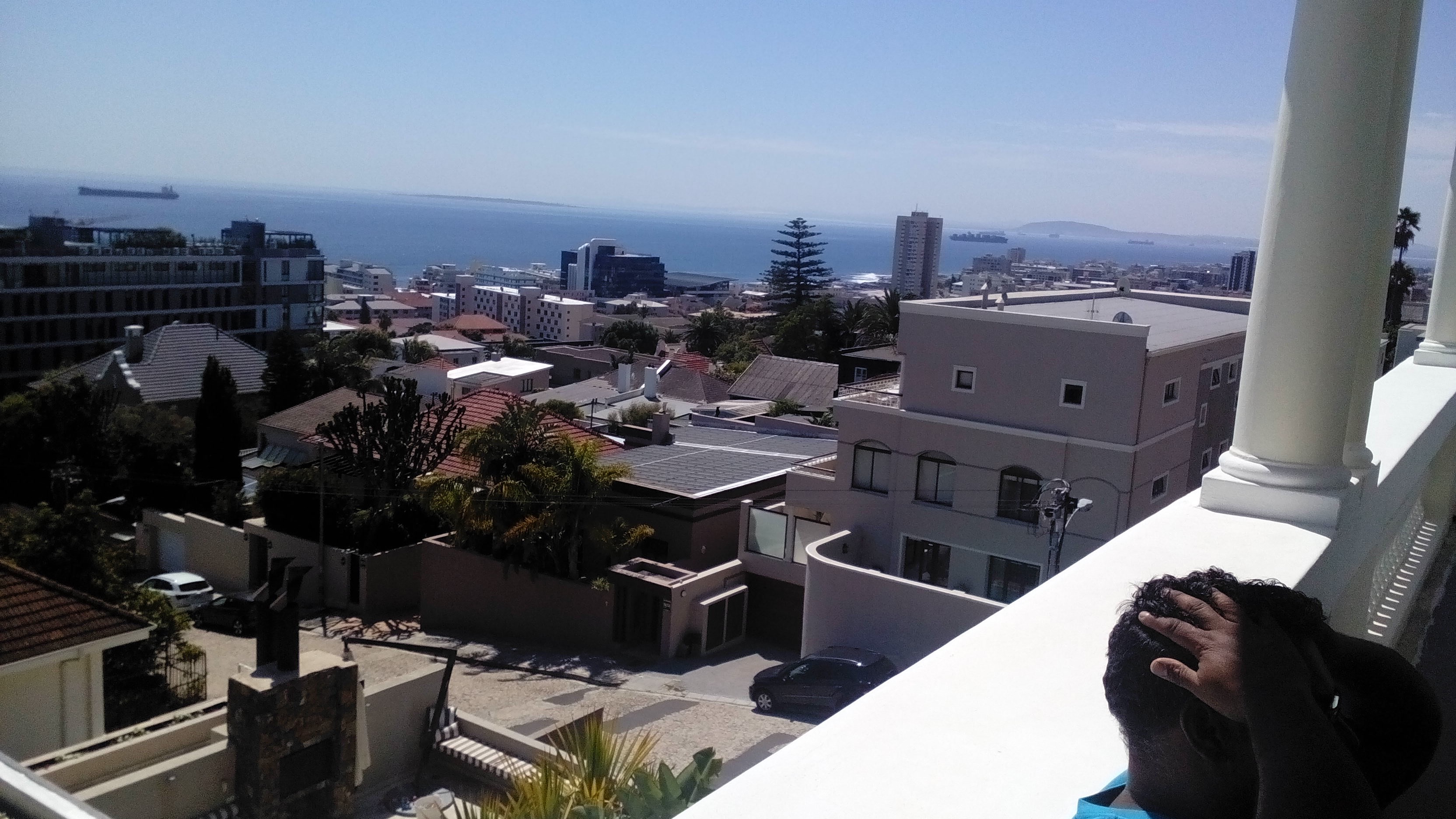 View of table bay with sea point at the bottom This is an image with the theme "Play" from: South Africa